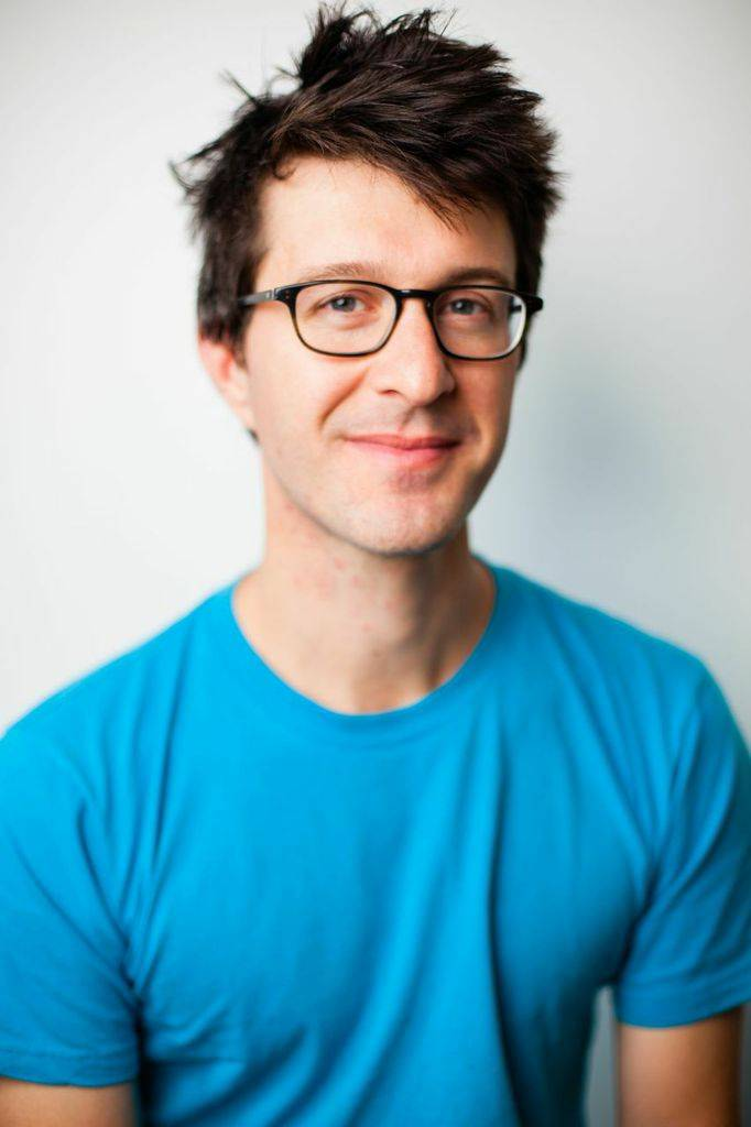 A recent photo of Christian Rudder